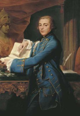 Portrait of John Crewe, 1st Baron Crewe (1742–1829), British politician.